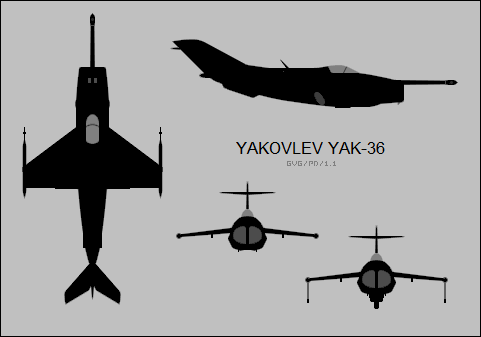 3-view silhouettes of the Yakovlev Yak-36 VTOL research aircraft